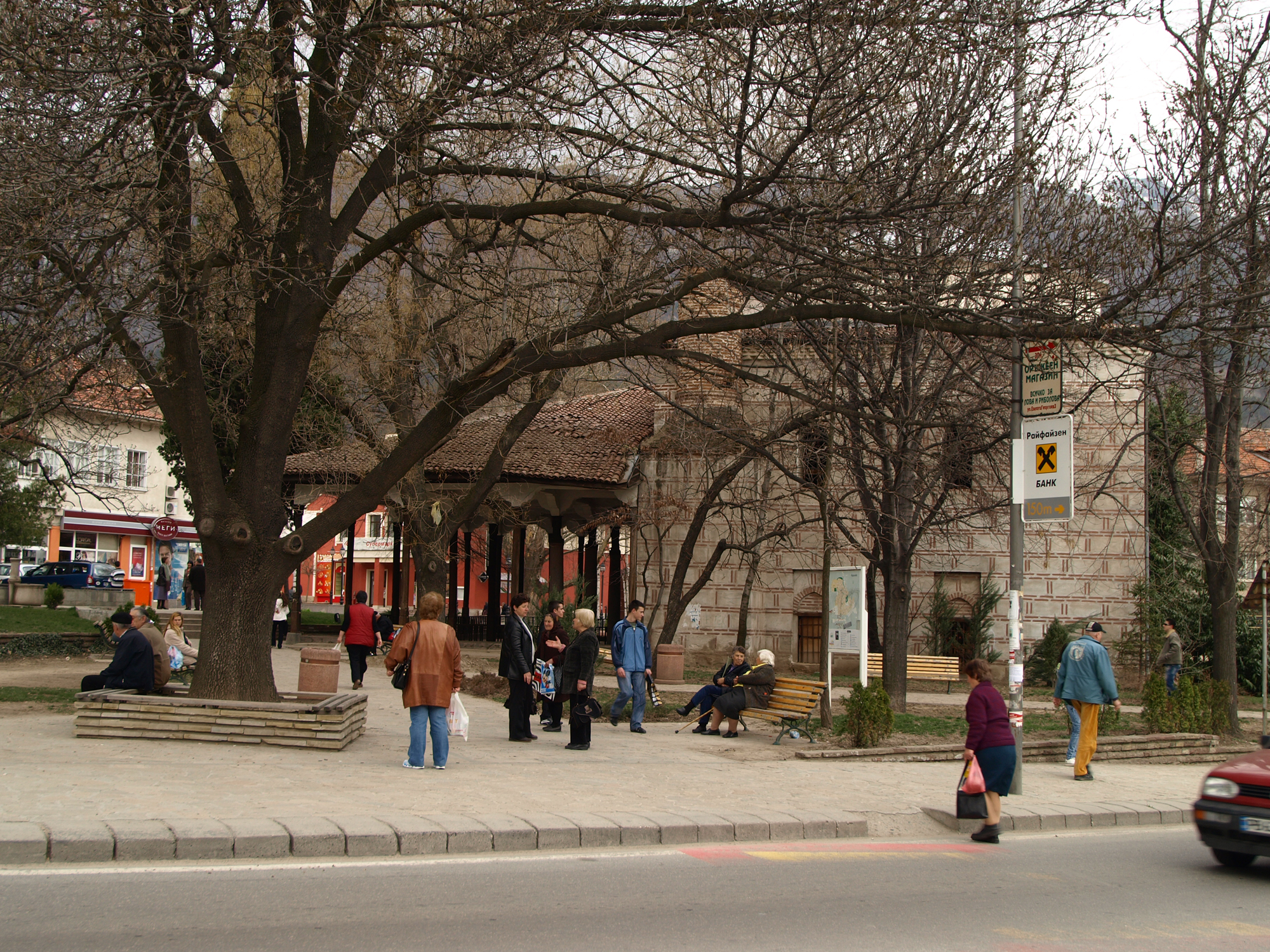 Kursum Mosque, built beginning of 15 century, Karlovo, Bulgaria